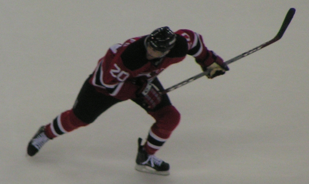 Jay Pandolfo plays a homegame against Washington